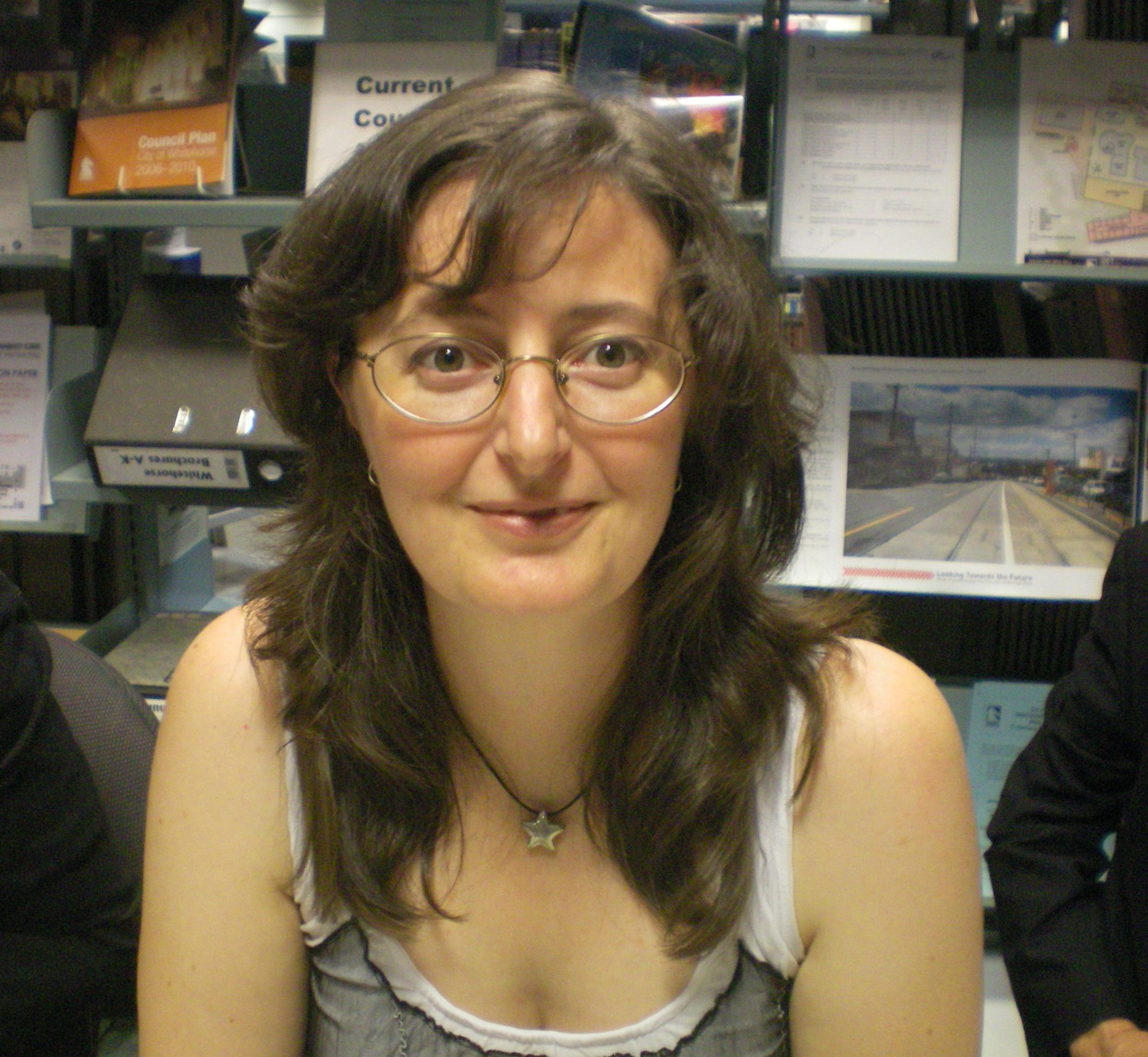 Trudi Canavan.